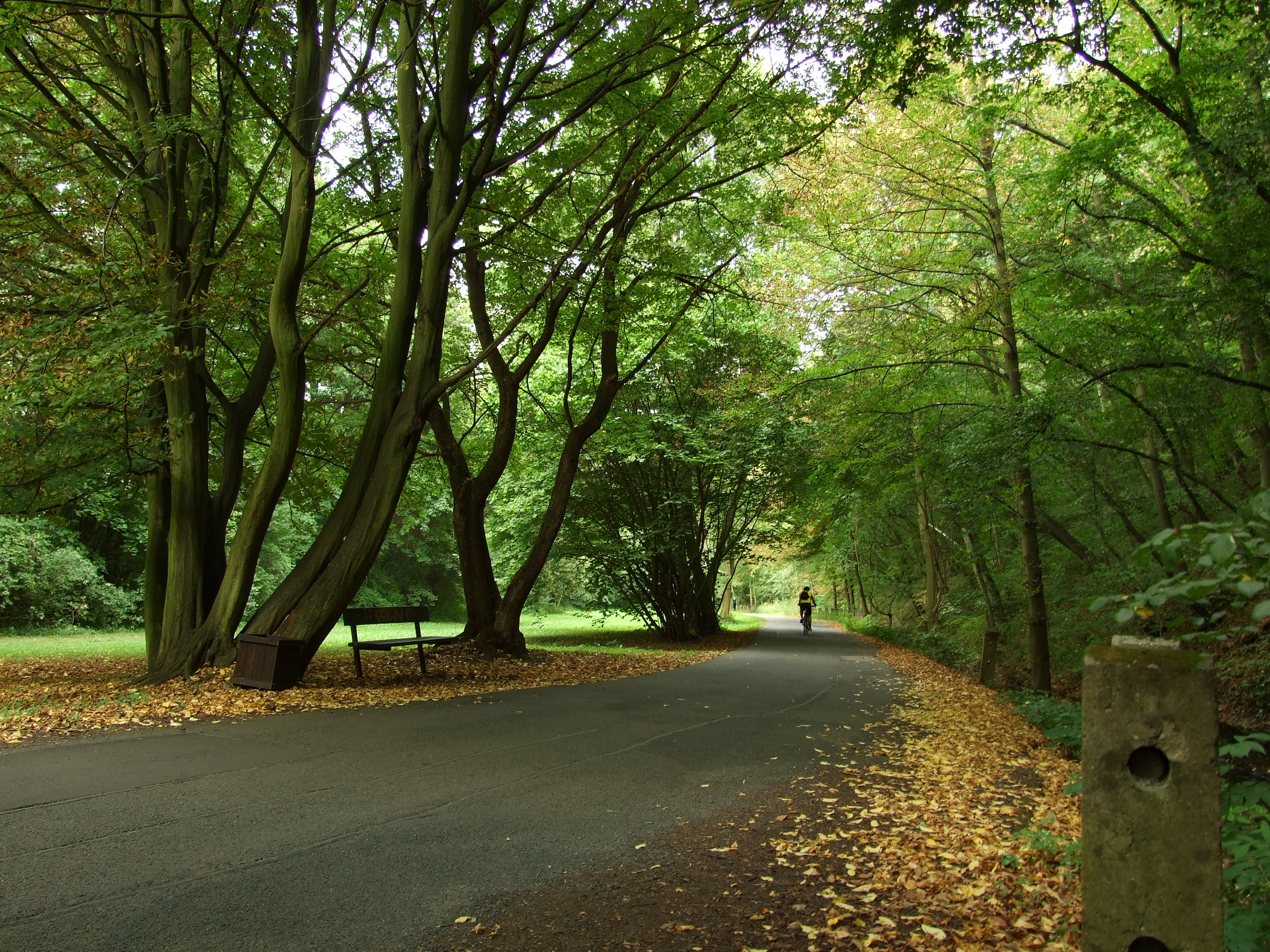 Prokopské údolí park in Prague, CZ